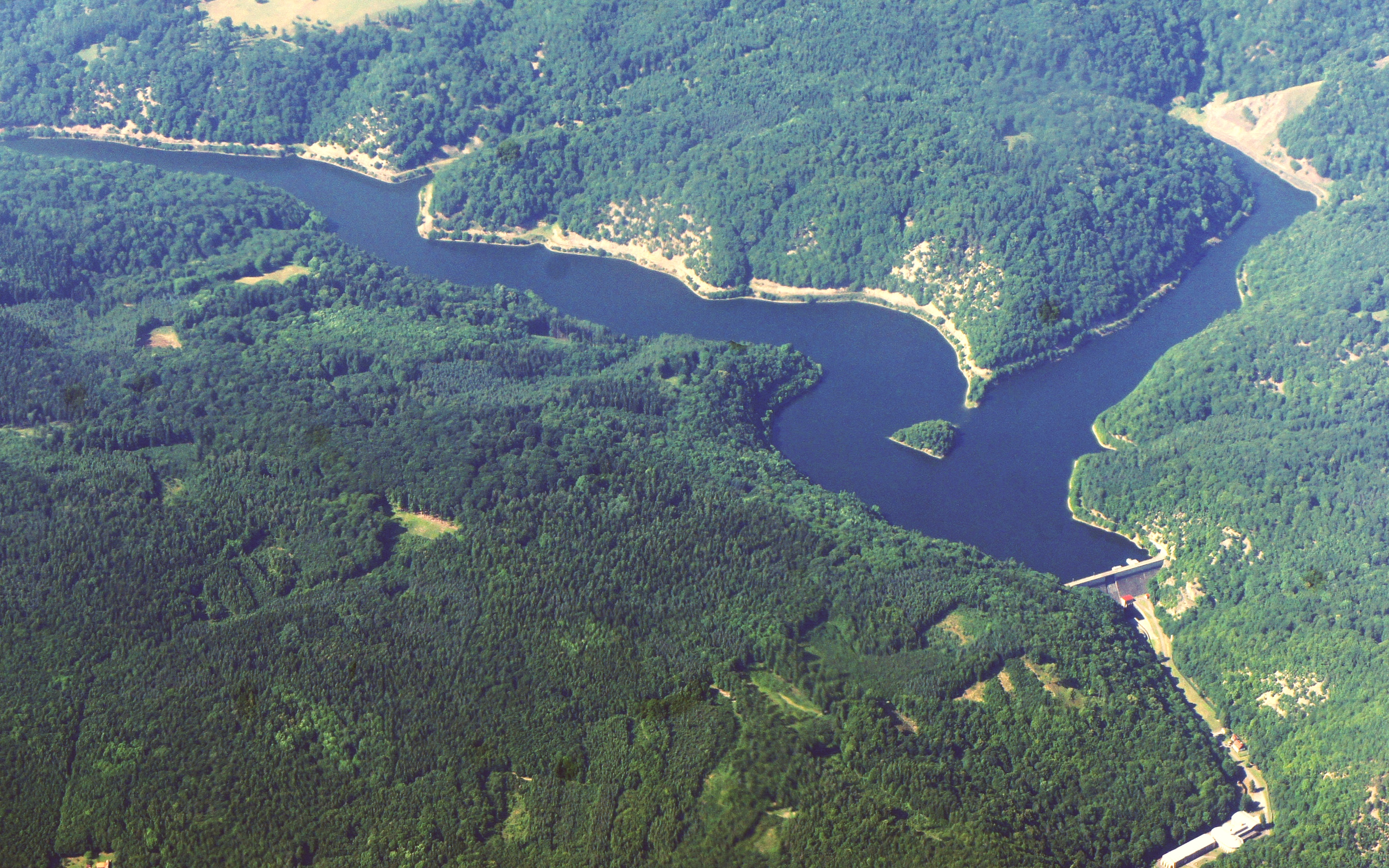 klíčava water reservoir from the window of a plane